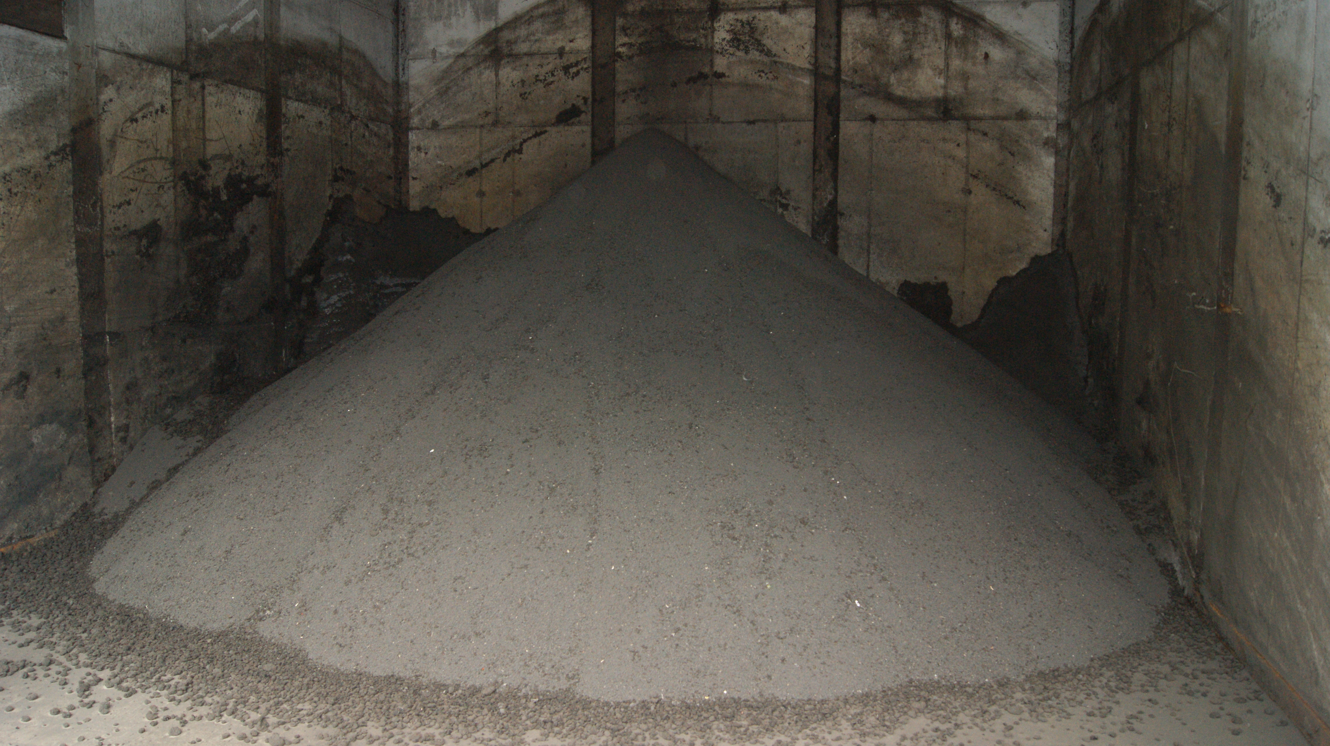 Sewage treatment plant Dornbirn-Schwarzach in Vorarlberg, Austria. Dry-sludge-pellets